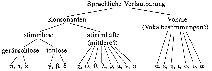 letters in philebos